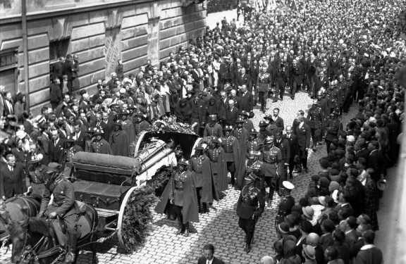 Funeral of Bronisław Pieracki in Nowy Sącz